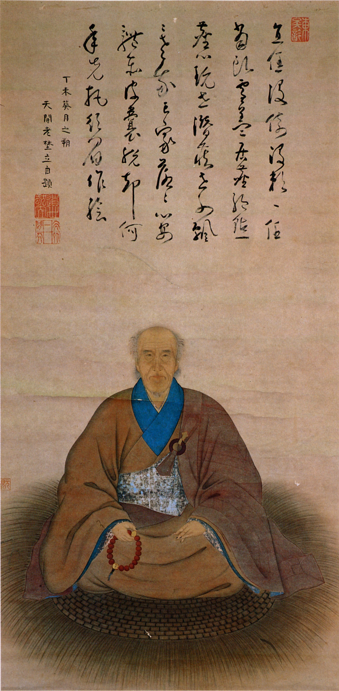 Portrait_of_Duli_Xingyi_Kita_Genki_Inscription_by_Duli_color_on_paper_hanging_scroll_Nagasaki_Museum_of_History_and_Culture